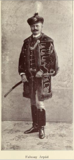 Portrait of Falussy Árpád